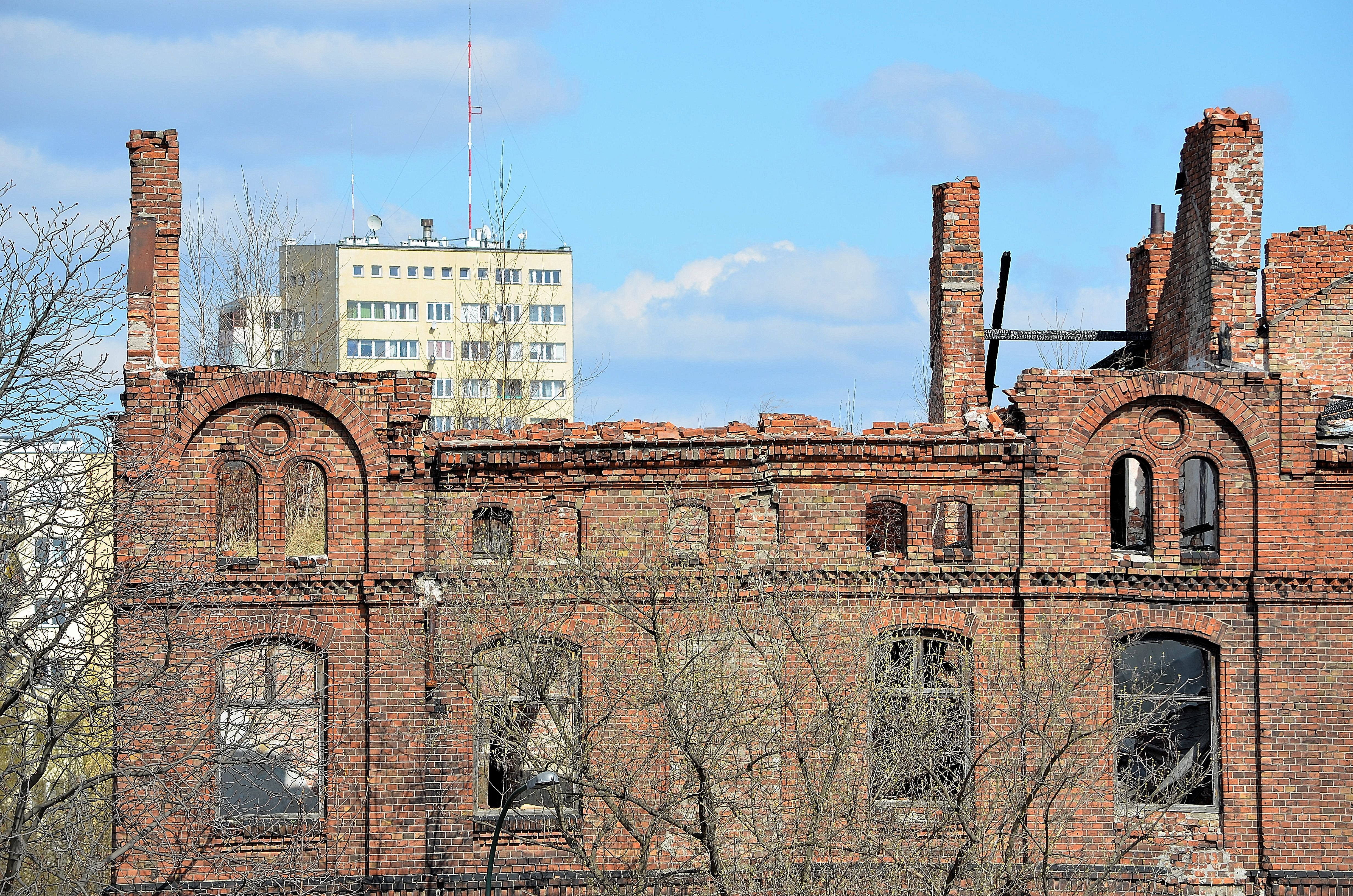 Ruins of former Zagórny and Ogórkiewicz Works in Krowia Street in Warsaw before demolition in 2012